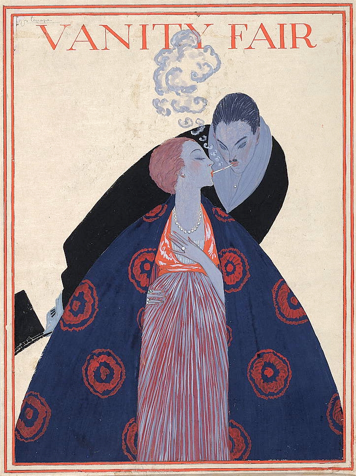 December 1919 Vanity Fair cover by French illustrator Georges Lepape (1887-1971). Gouache over pencil on bristol board, 34.9 x 26.8 cm. (sheet). Exhibited at "American Beauties: Drawings from the Golden Age of Illustration", Swann Gallery, Library of Congress, 2002.